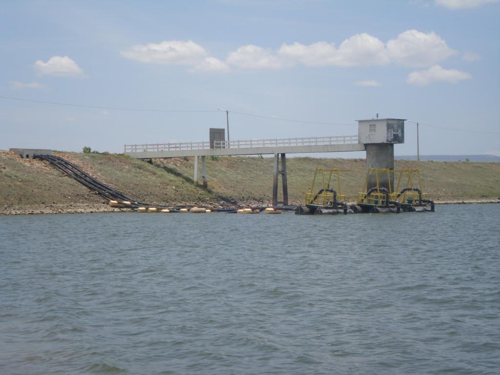 Dam of Pau dos Ferros (Built by DNOCS), with new installations of the pipeline.